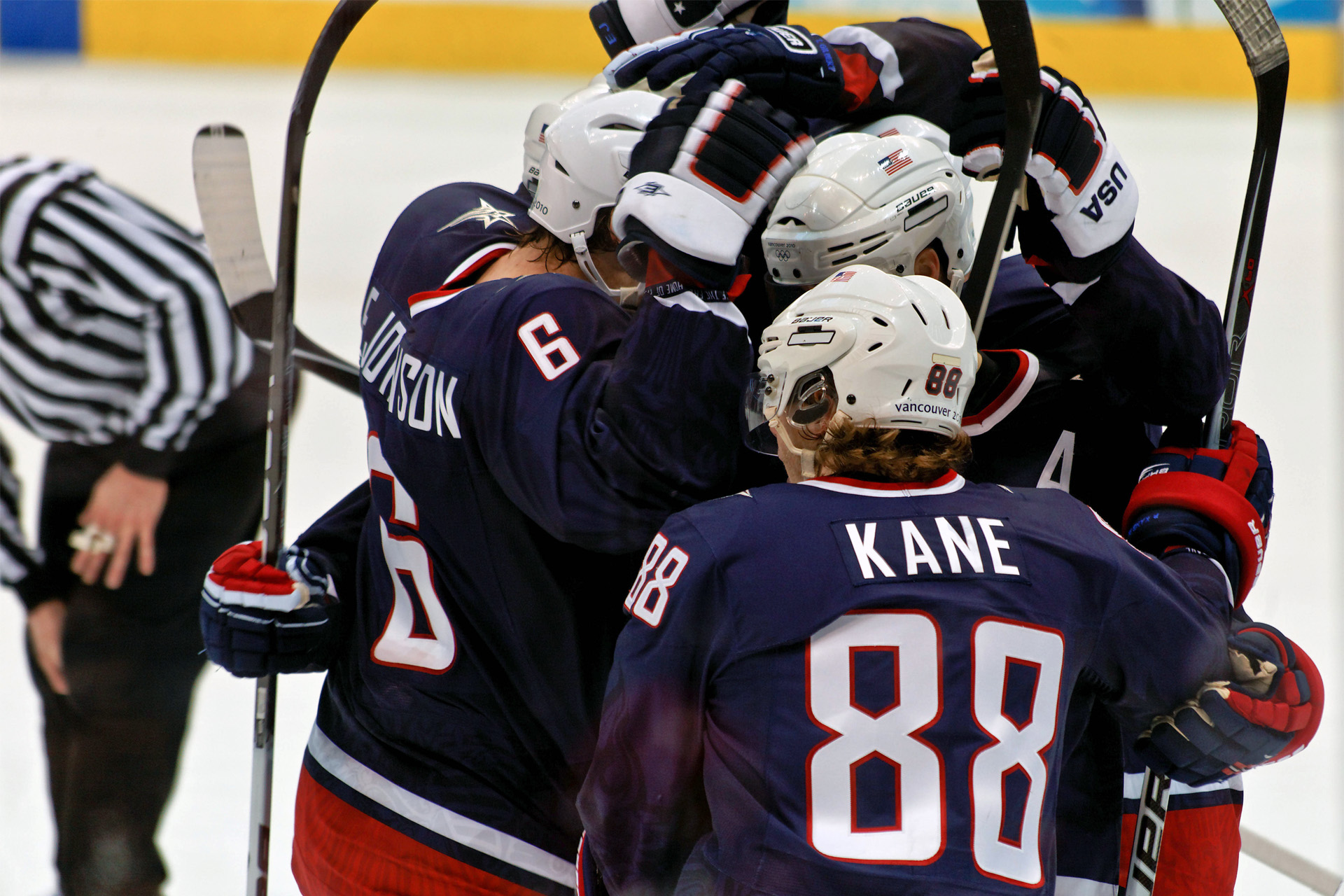 Patrick Kane and Erik Johnson celebrate a goal by Ryan Kesler, who deflected a puck past his NHL teammate Roberto Luongo to get the USA back in the game, 2 - 1